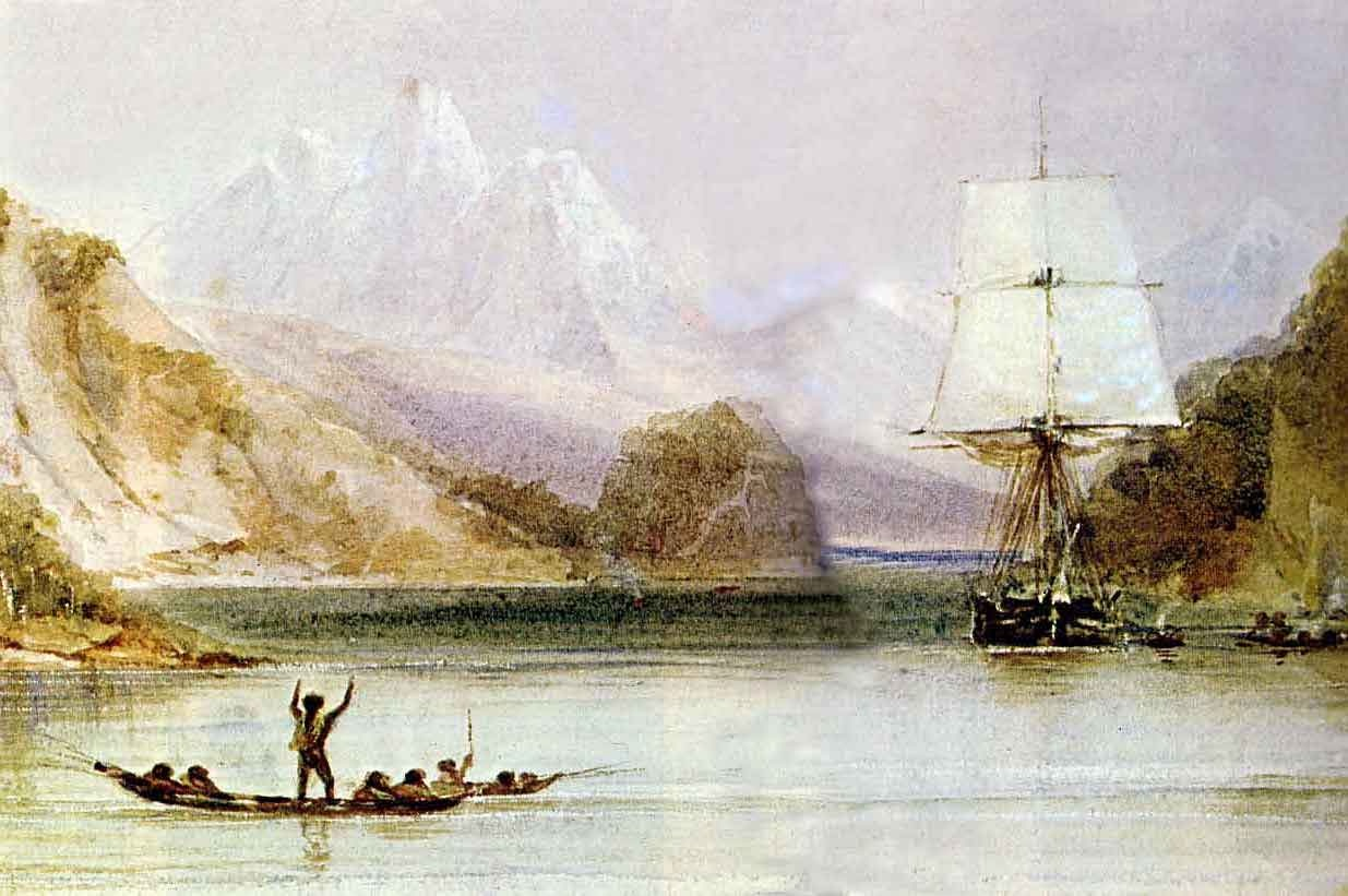 HMS Beagle at Tierra del Fuego (painted by Conrad Martens). HMS Beagle in the seaways of Tierra del Fuego, painting by Conrad Martens during the voyage of the Beagle (1831-1836), from The Illustrated Origin of Species by Charles Darwin, abridged and illustrated by Richard Leakey ISBN 0-571-14586-8.